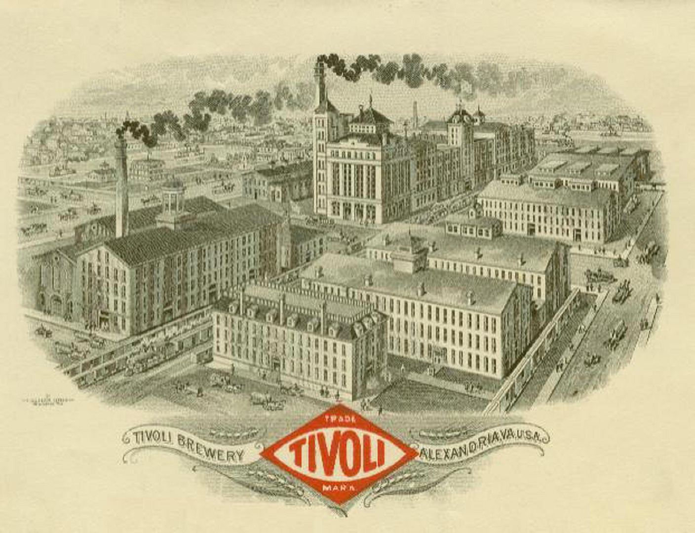 A lithograph image from about 1895 of the Robert Portner Brewing Company, located in Alexandria, Virginia, and in operation from 1865-1916.